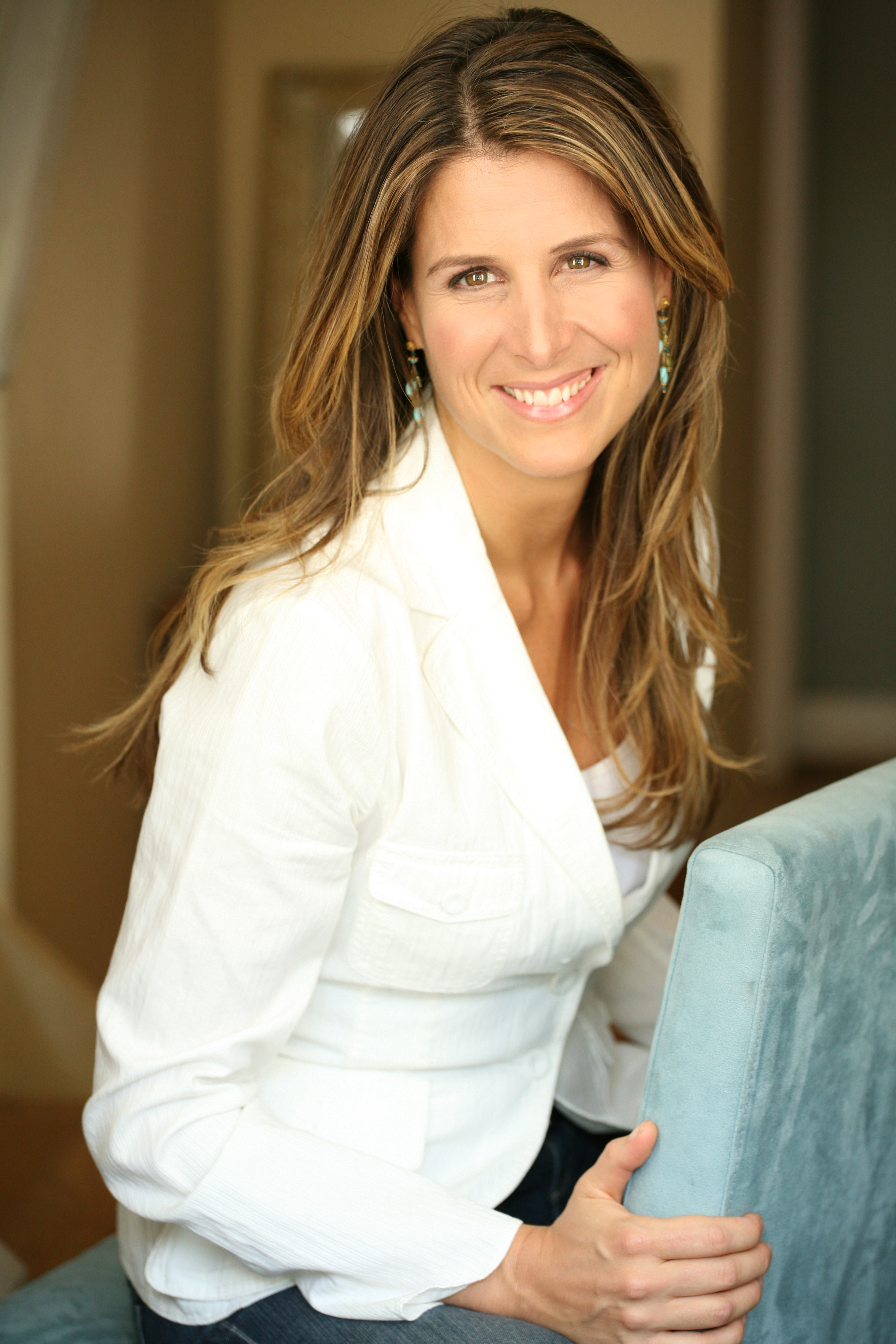 Ariane de Bonvoisin.